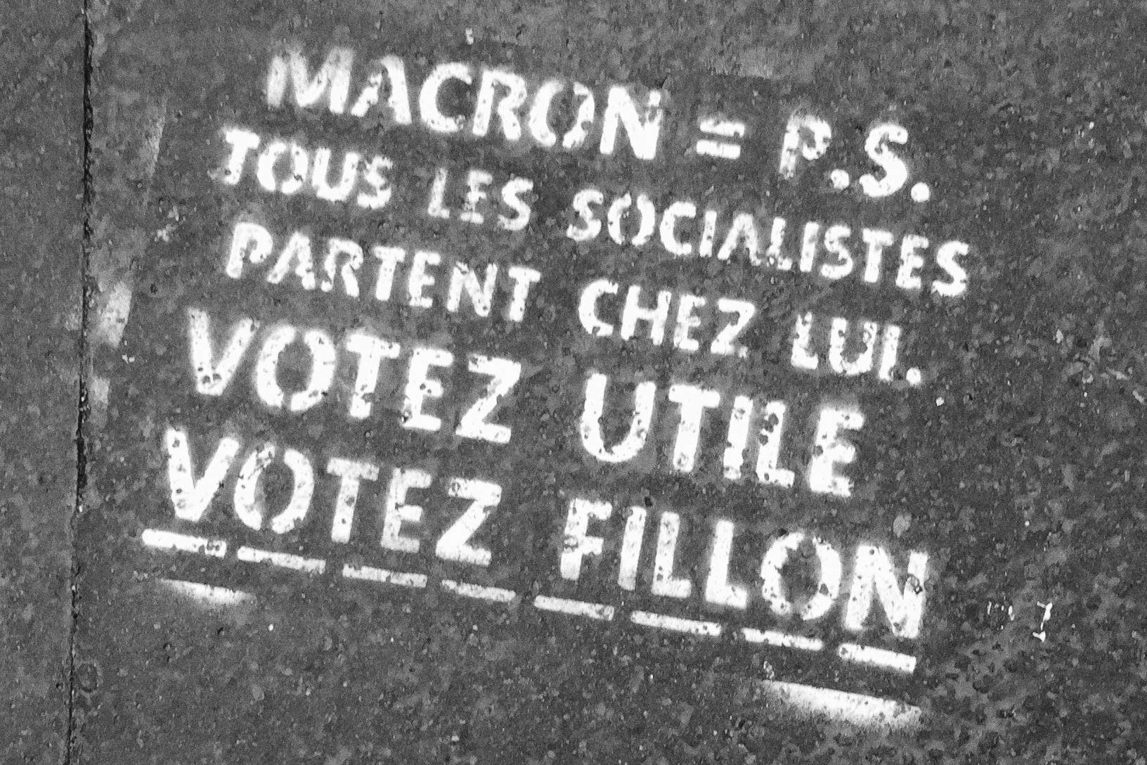 Anti-Macron stencil message on a sidewalk in Paris